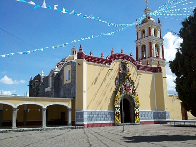 Iglesia de Santiago 2